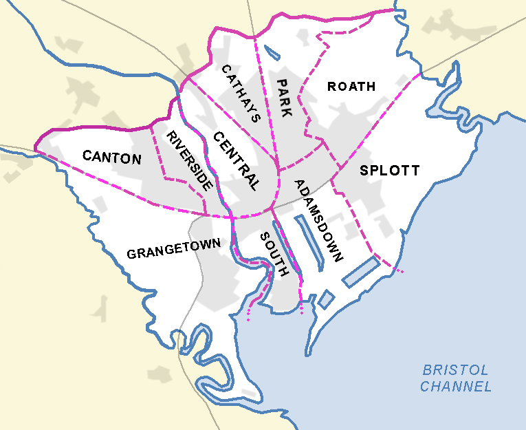 Electoral wards of Cardiff County Borough after July 1890. Based on a map published in The Western Mail, 6 August 1890.